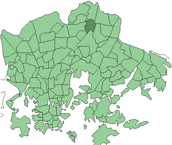 Districts of Helsinki, Tapanila highlighted